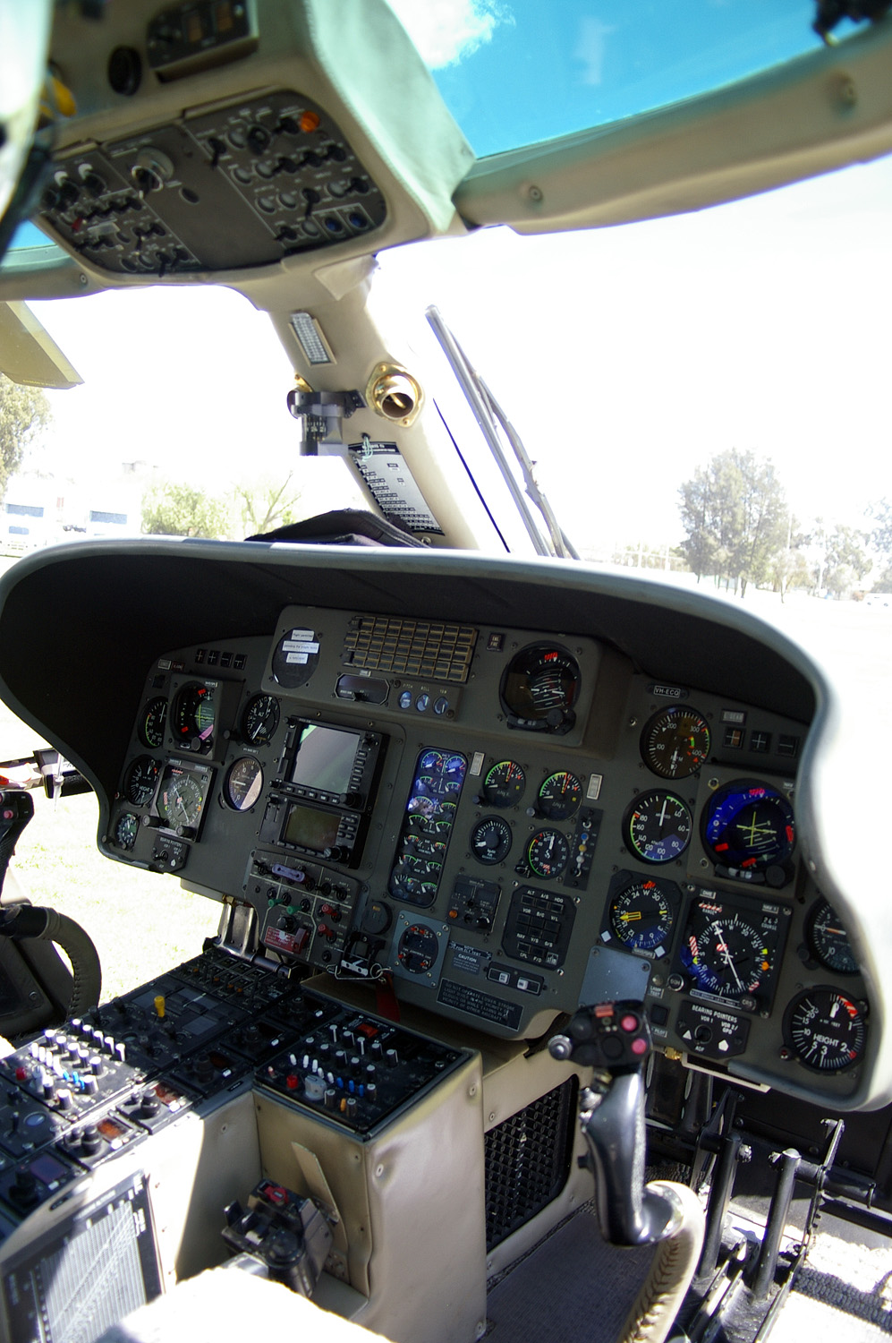 Eurocopter AS365 N2 Dauphin cockpit.